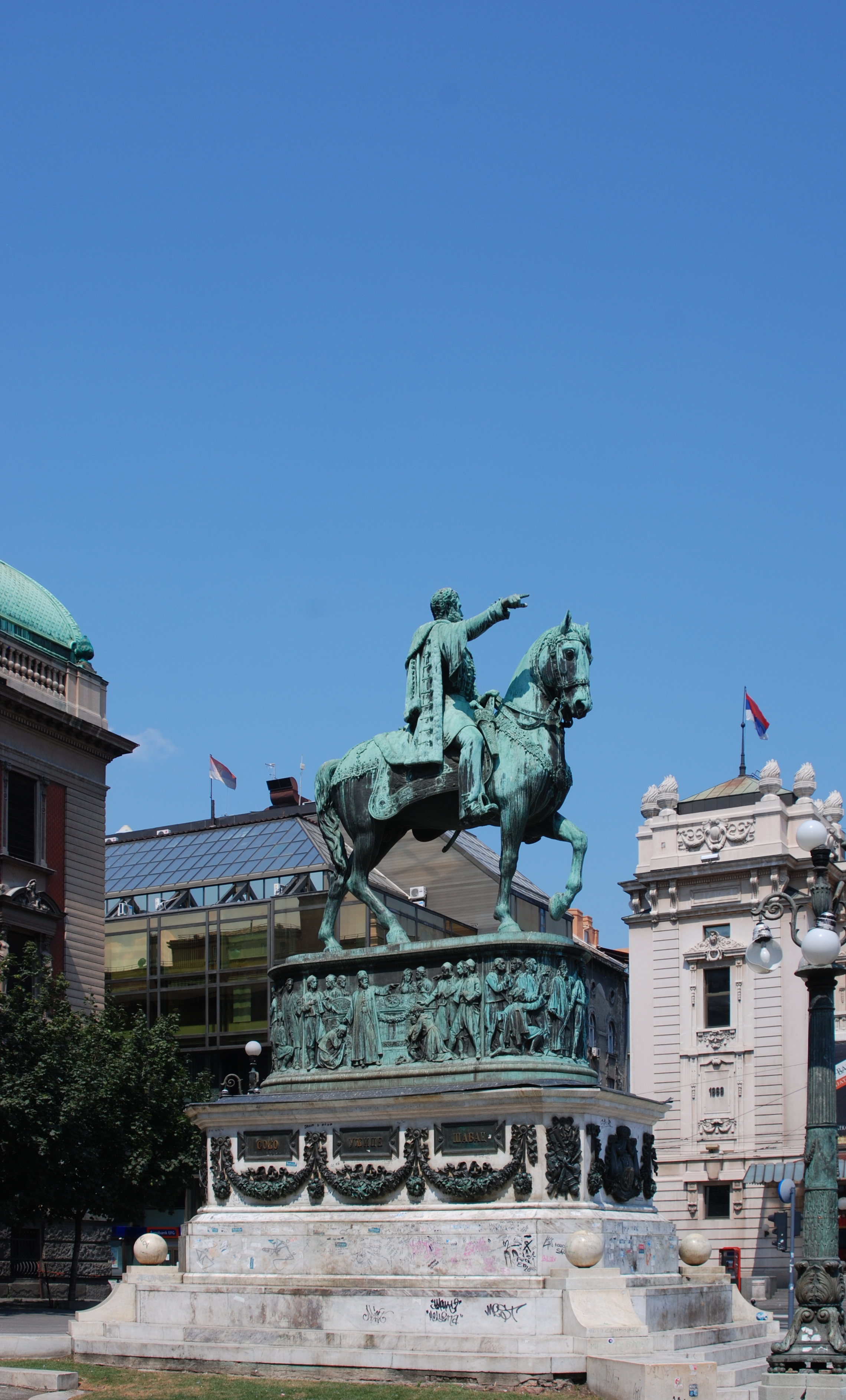 The statue of Prince Mihailo on Republic Square in Belgrade